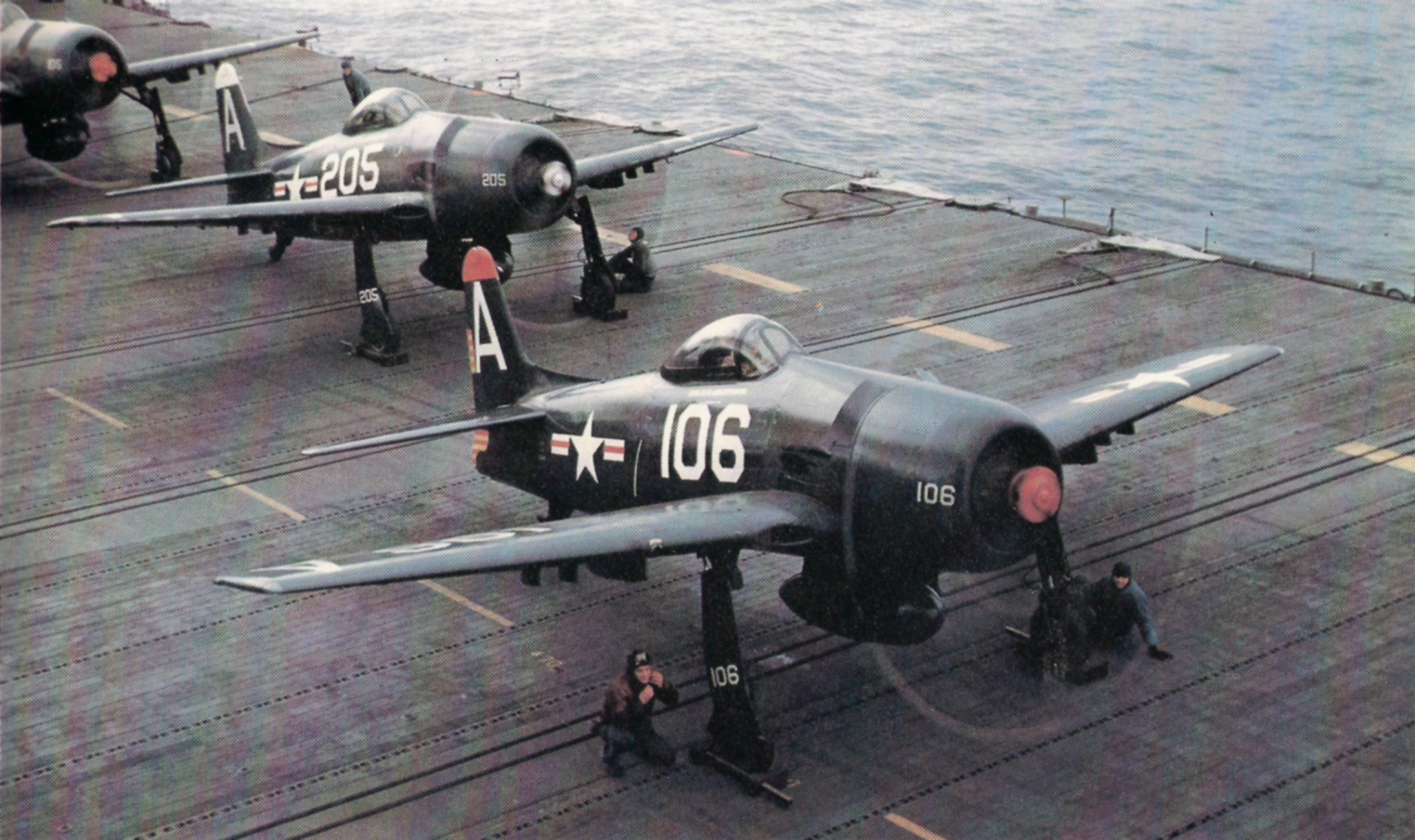 U.S. Navy Grumman F8F-1 Bearcat fighters prepare to launch from the aircraft carrier USS Tarawa (CV-40) in 1948. The aircraft were from Fighter Squadron VF-15A "Fighting 15A" (A-106, A-105), and VF-16A "Copperheads", assigned to Carrier Air Group 15 (CVAG-15).